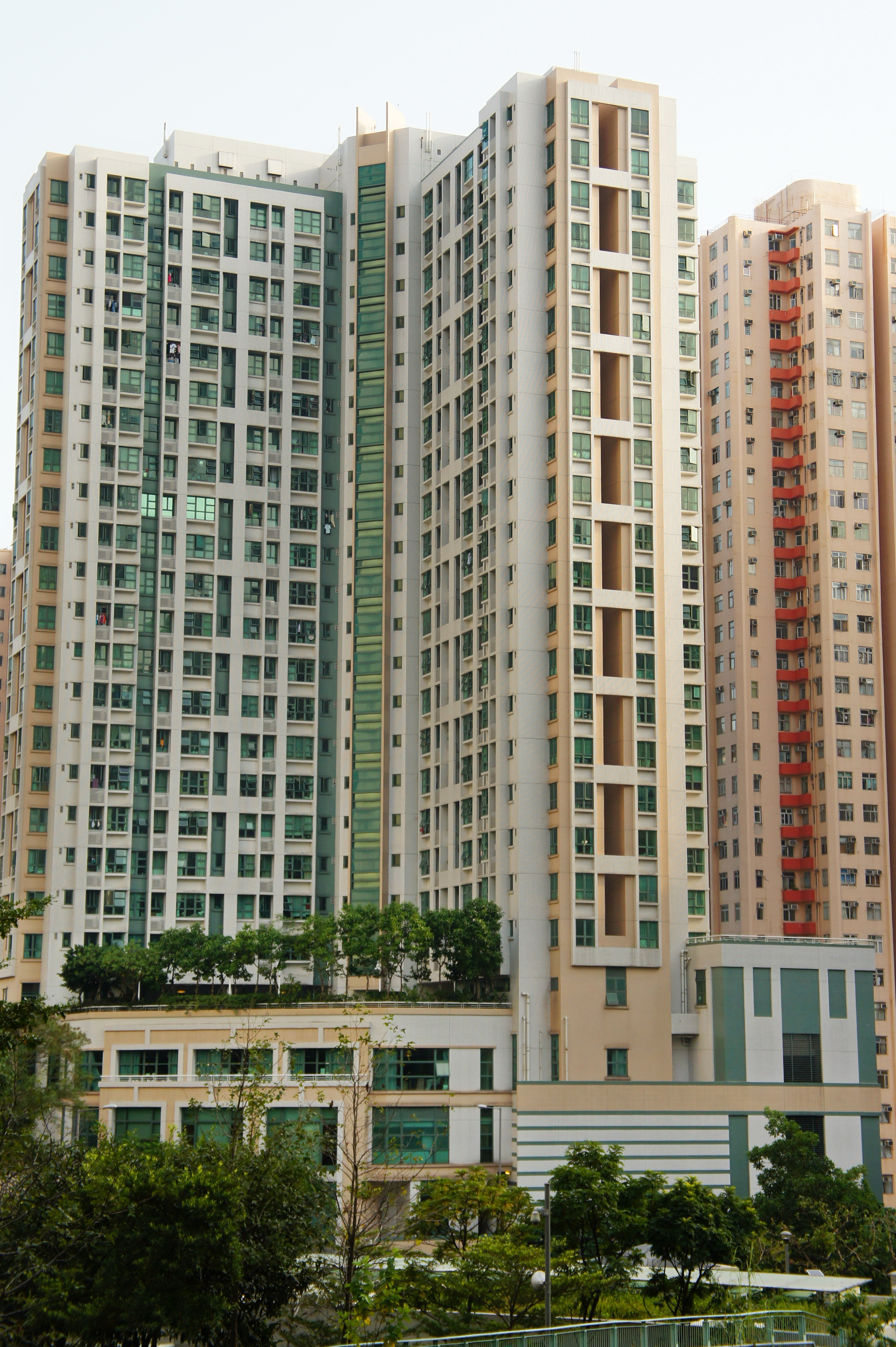 H.K.S.K.H. Senior Citizen Residences - Cheerful Court, 55 Choi Ha Road, Ngau Tau Kok, Kowloon, Hong Kong.